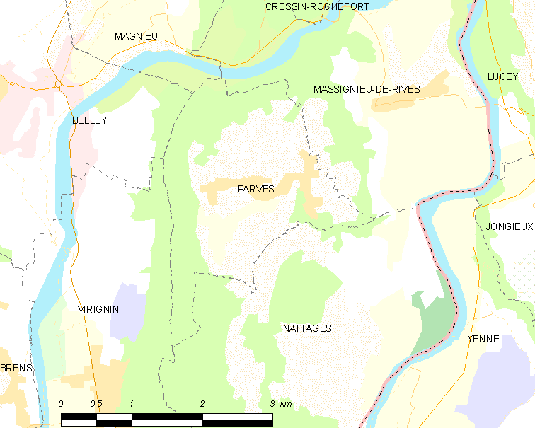 Map of French commune: Parves Map commune FR insee code 01286.png